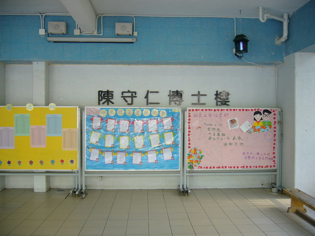 陳守仁博士樓